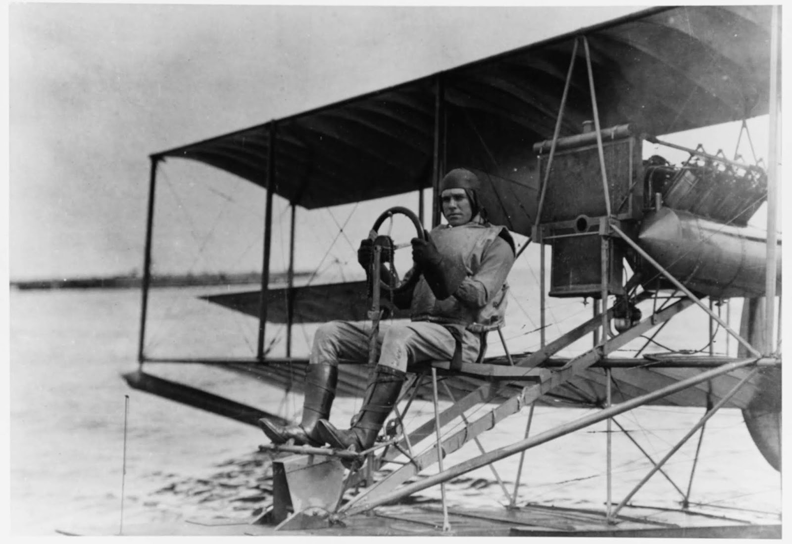 Lt. j.g. Patrick N. L. Bellinger at the controls of a Curtiss A-type seaplane